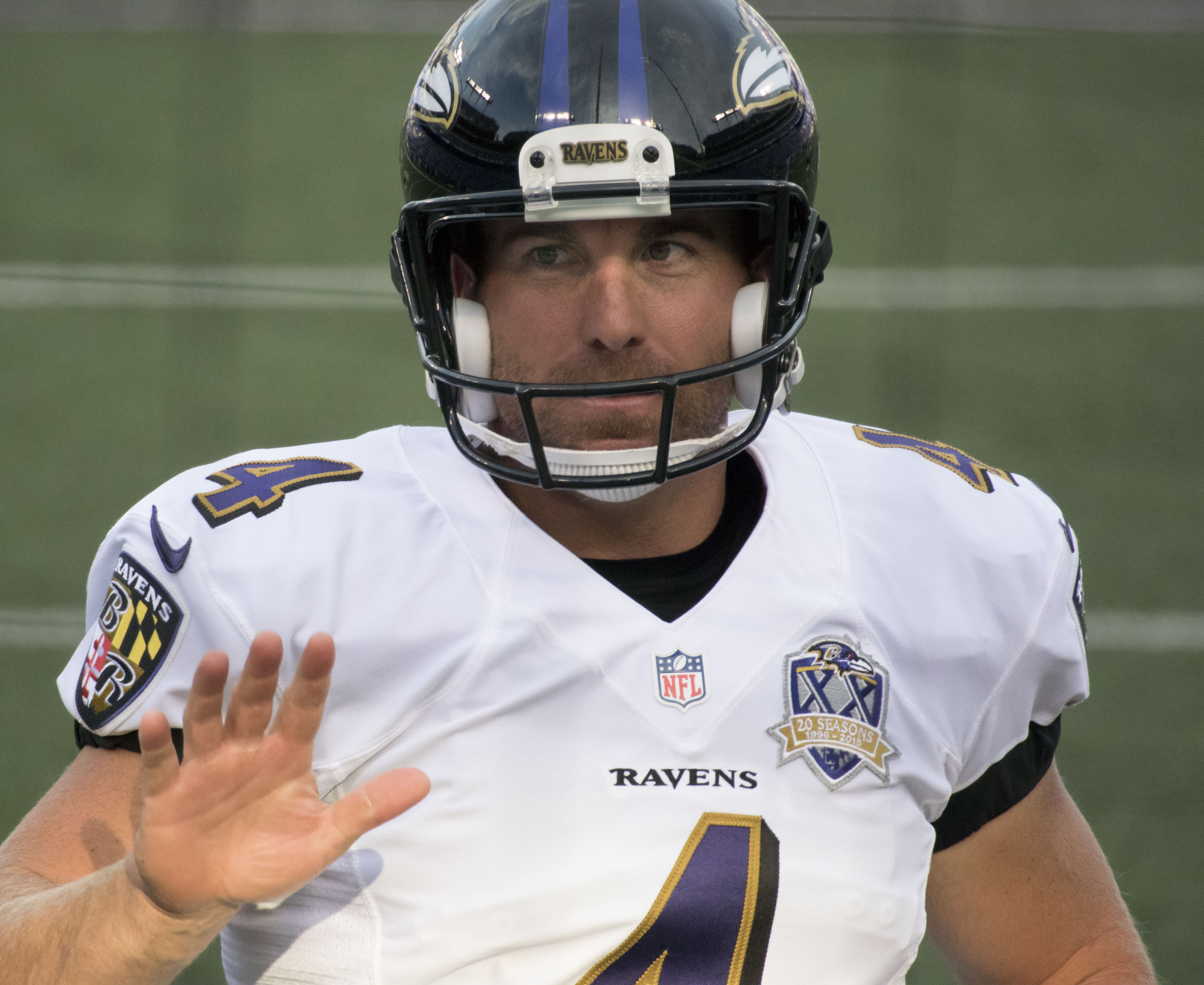 Baltimore Ravens punter, Sam Koch, playing against the New Orleans Saints in preseason game on August 13, 2015.